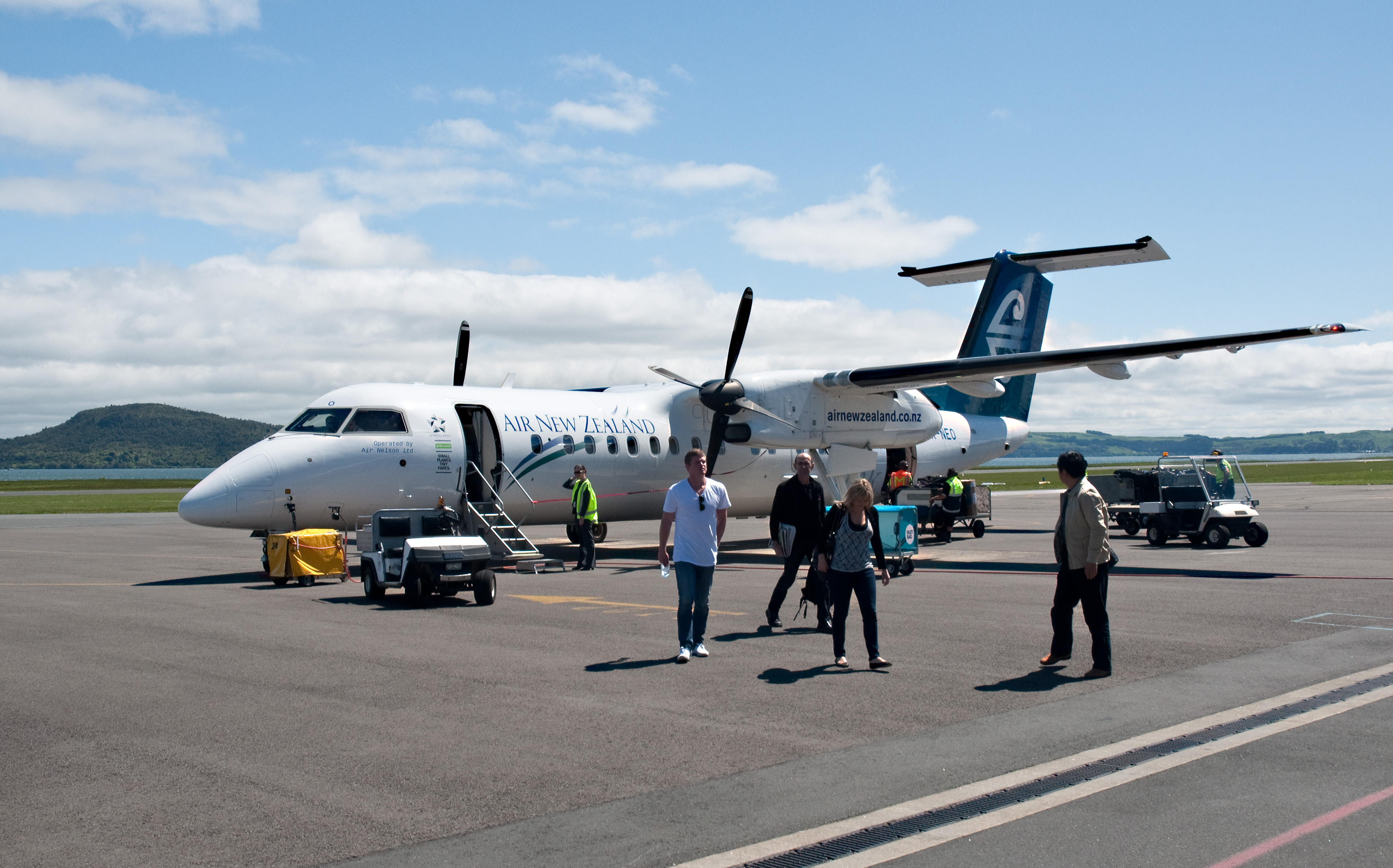 Air Nelson Q300 from Wellington